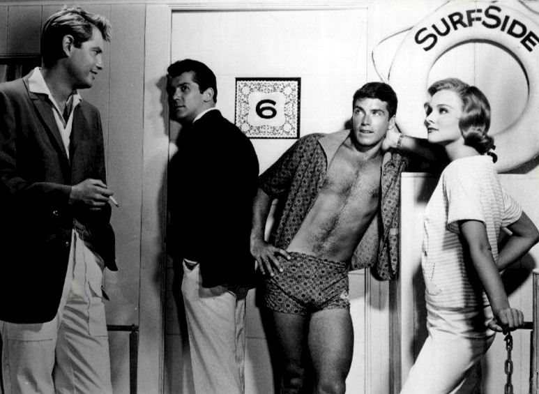 Cast photo from the premiere of the television program Surfside 6. The only cast member not pictured is Margarita Sierra, who played Cha Cha O'Brien. From left: Troy Donahue (Sandy Winfield), Lee Patterson, (Dave Thorne), Van Williams (Kenny Madison), and Diane McBain (Daphne Dutton).